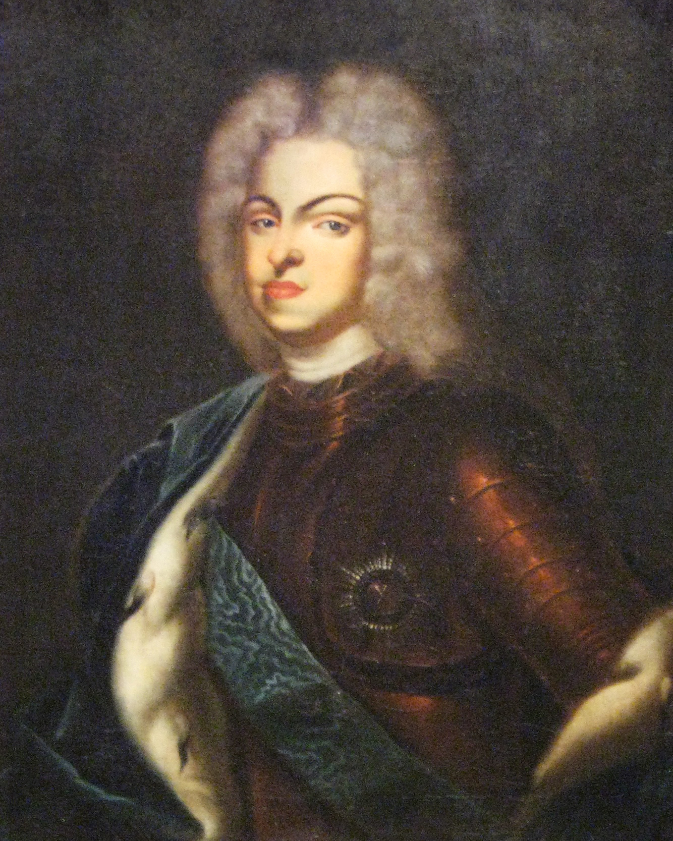 Charles Frederick of Holstein-Gottorp